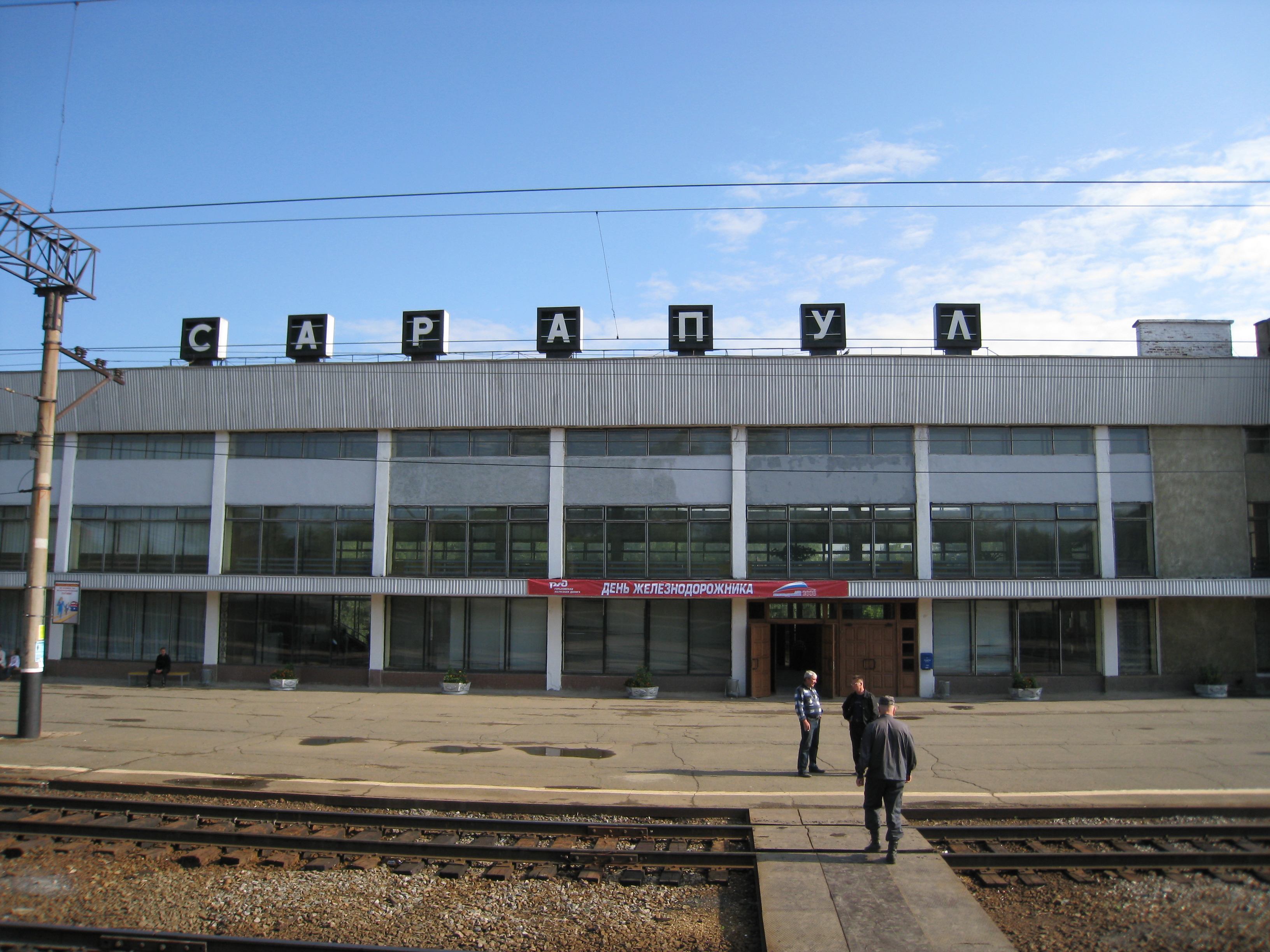 Sarapul train station